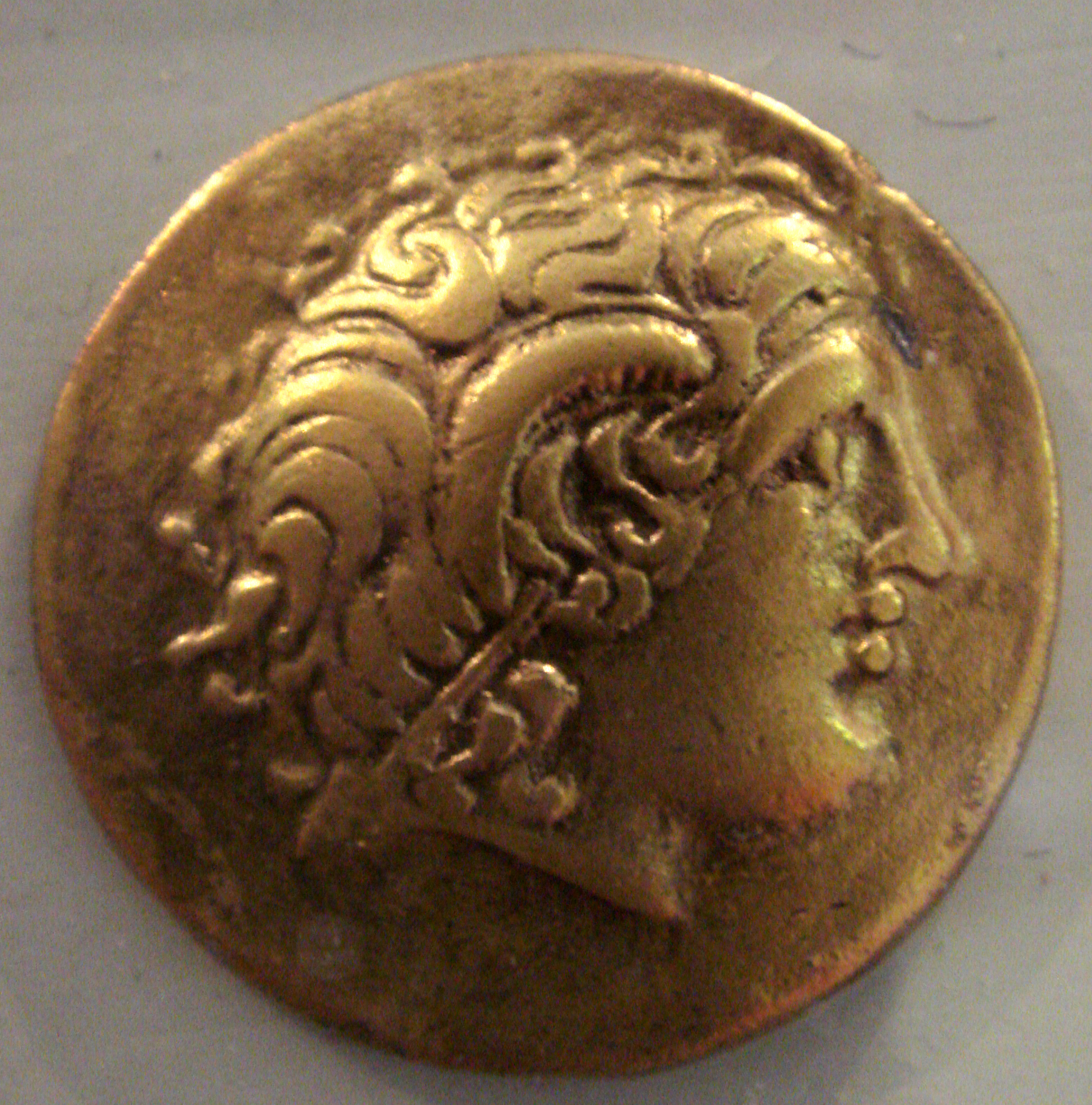 Sequani_coin_5th_to_1st_century_BCE